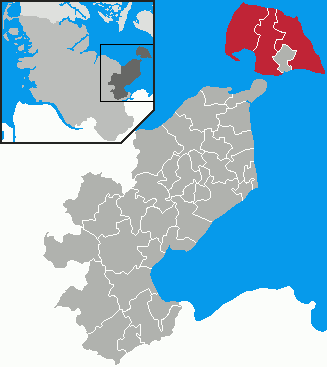 This map shows the area of the former Amt (county) Fehmarn in the Kreis (district) Ostholstein, Schleswig-Holstein, Germany.